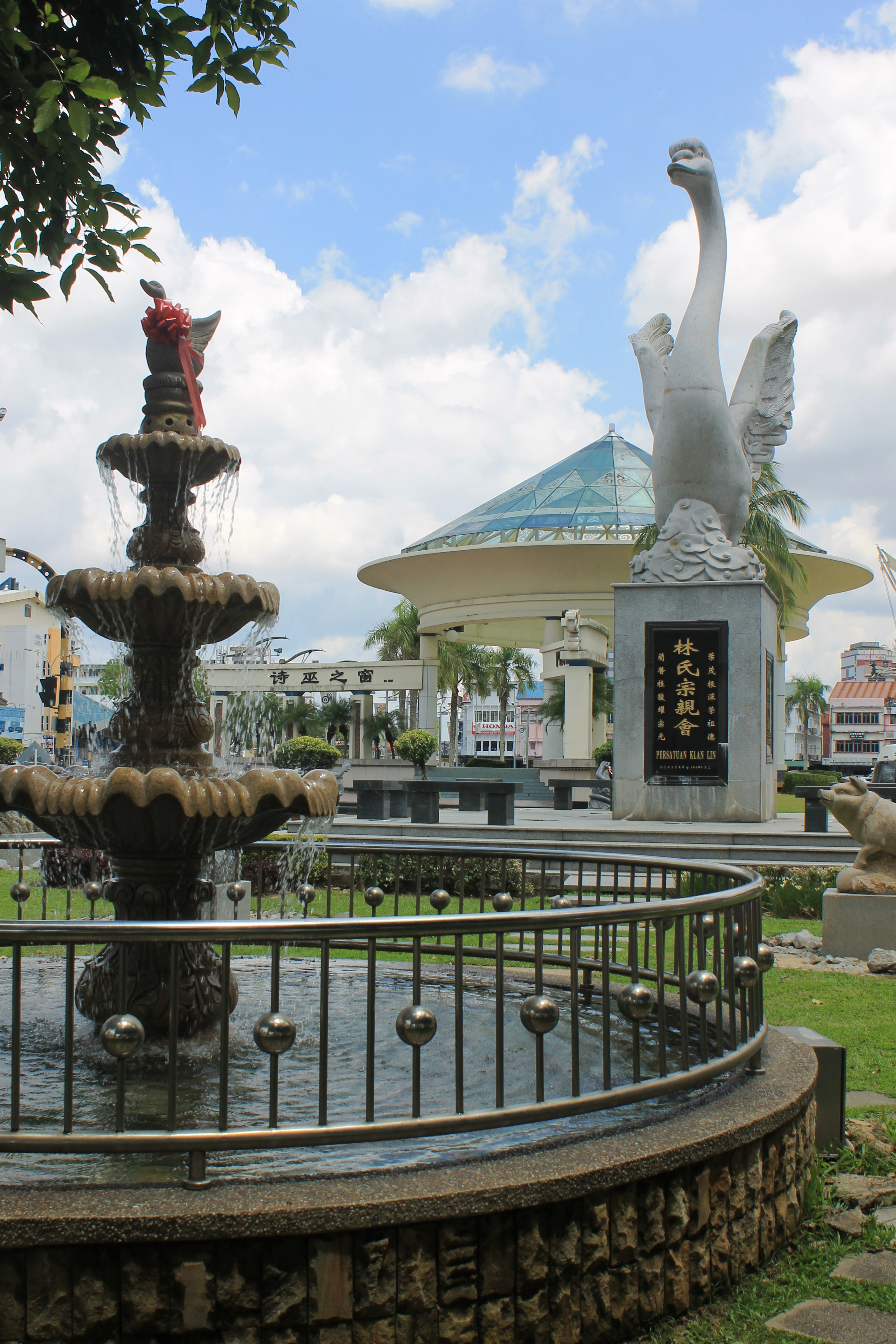 Fountain and swan statue near the Sibu Gateway